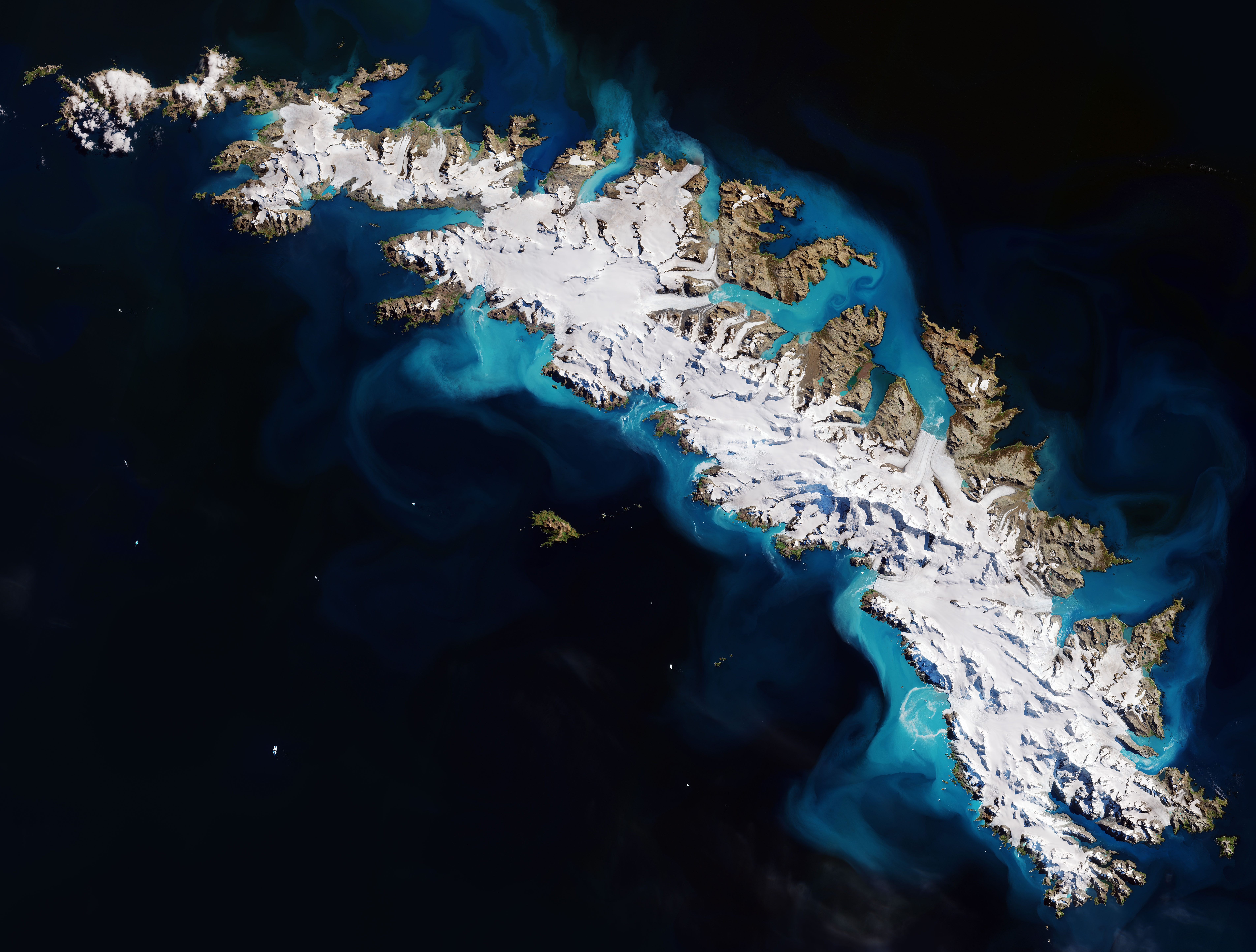 The island of South Georgia as seen from The Copernicus Sentinel-2 mission. This southern Atlantic island is linked with the South Sandwich Islands to form a British Overseas Territory.